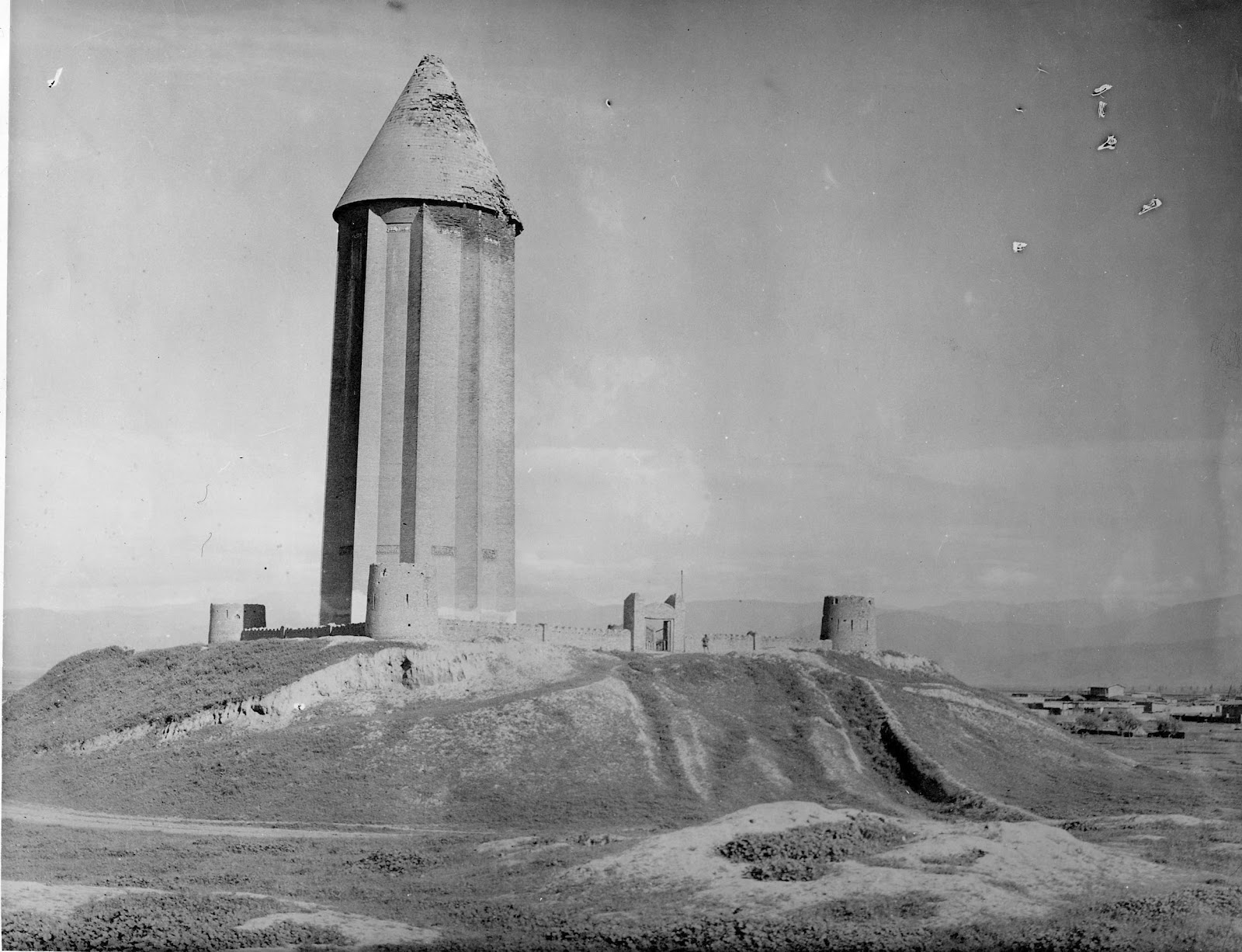 Gonbad-e Qabus